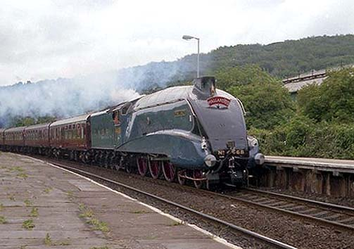 LNER Class A4 Mallard passing through Keighley on Saturday, 16 July, 1988.